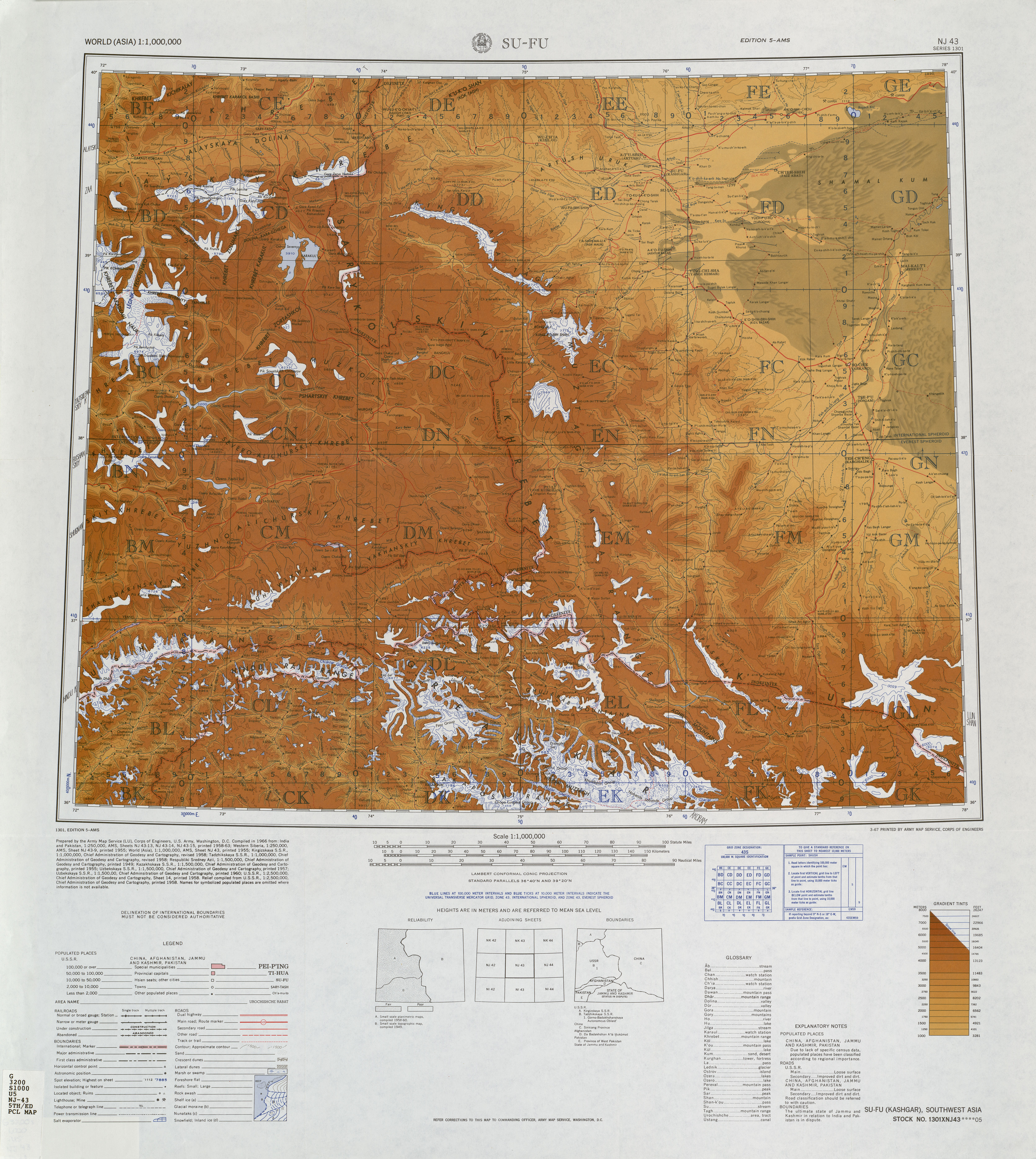 NJ 43 Su-fu [U.S.S.R., China, Afghanistan, Pakistan, State of Jammu and Kashmir] Series 1301, Edition 5-AMS, Map from the International Map of the World 1:1,000,000